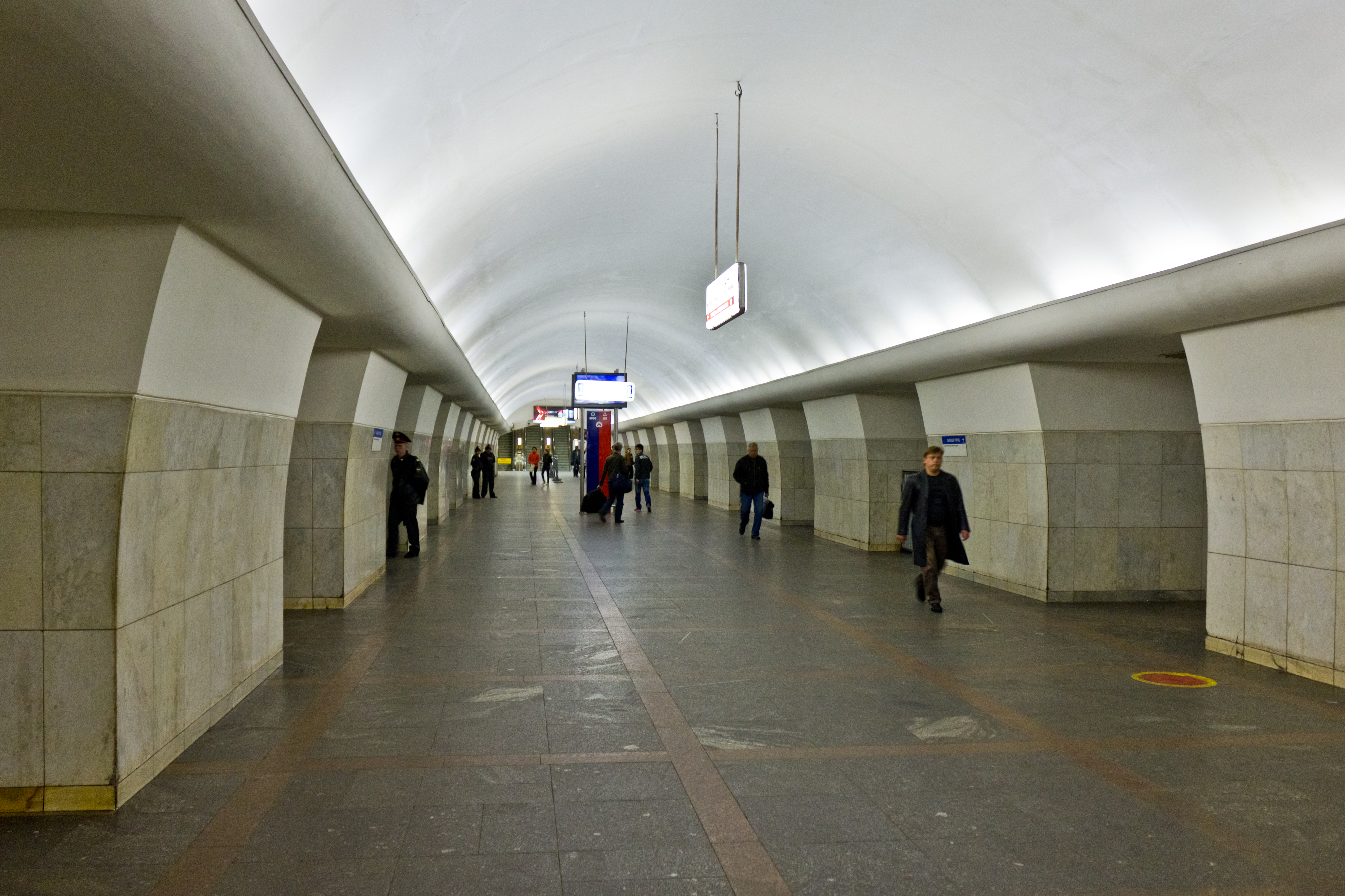 Oktyabrskaya-Radialnaya Moscow Metro station.